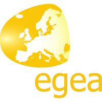 It's made by egea. THis is authorisized by the Board